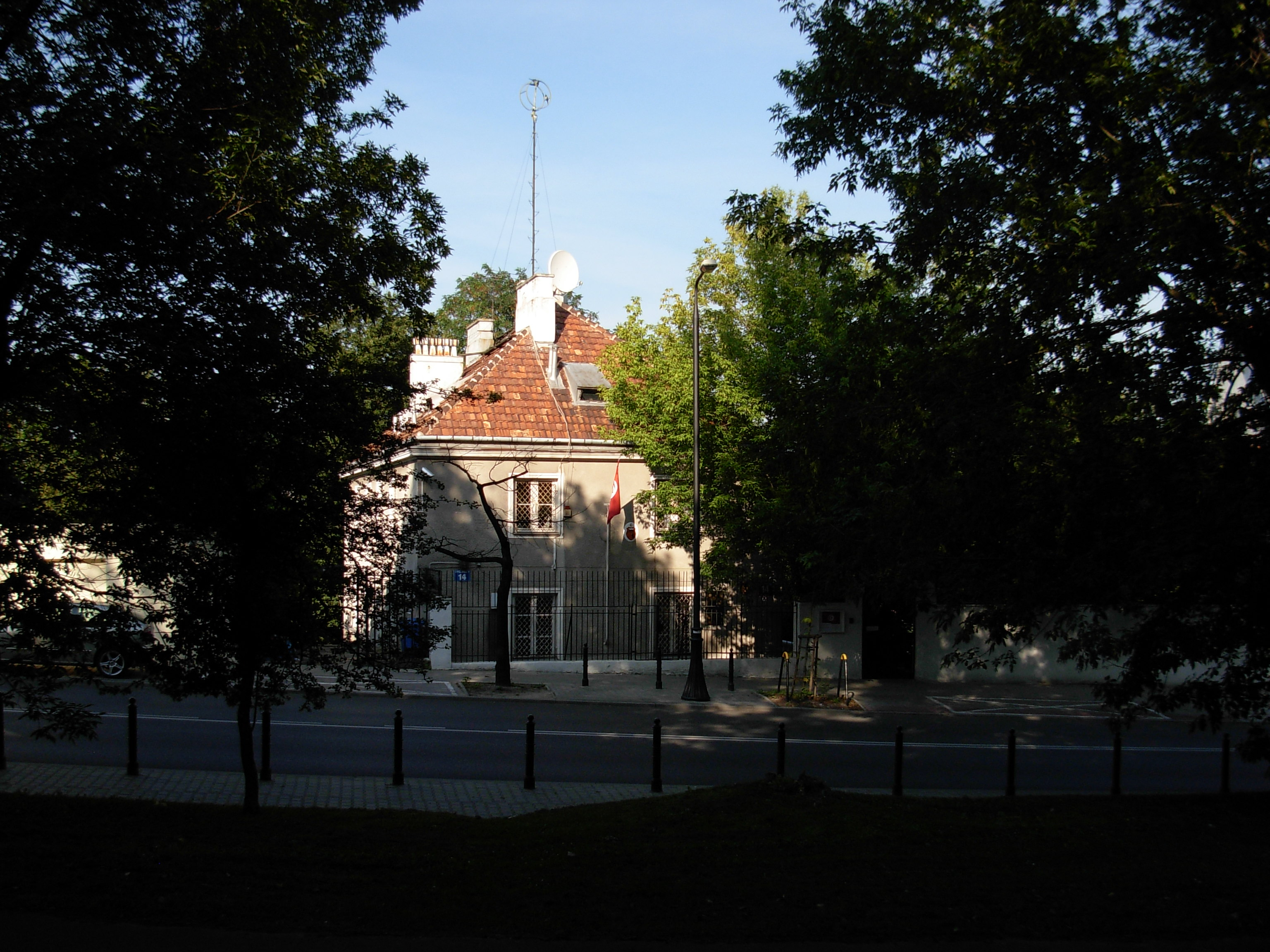 Embassy of Tunisia in Warsaw